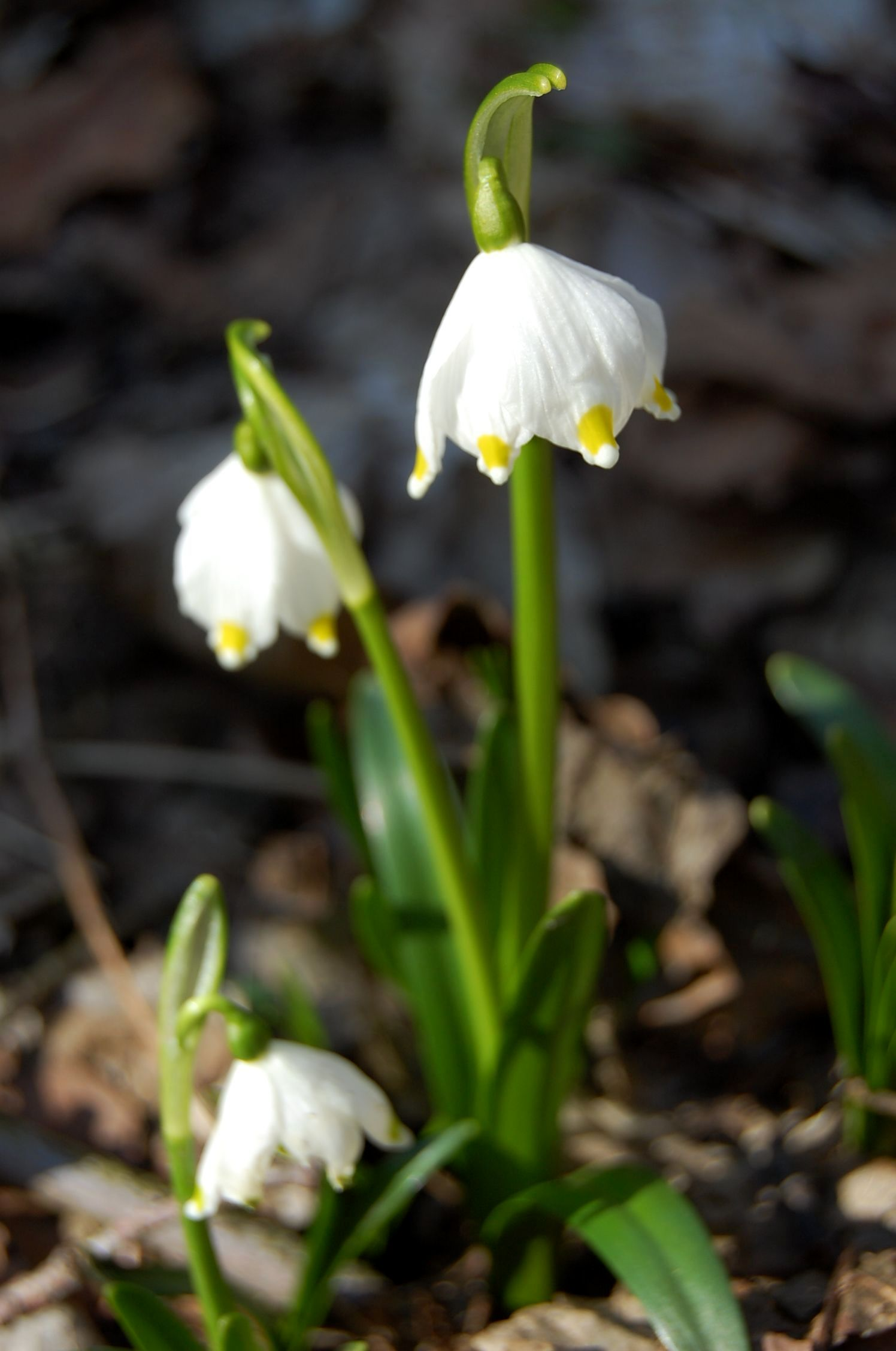 Leucojum vernum in natural monument Mastnice, Prachatice District, Czech Republic